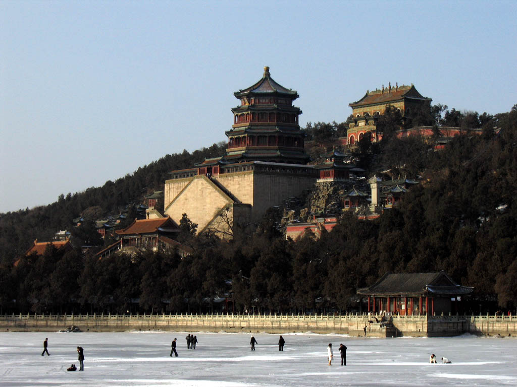 The spring in palace.